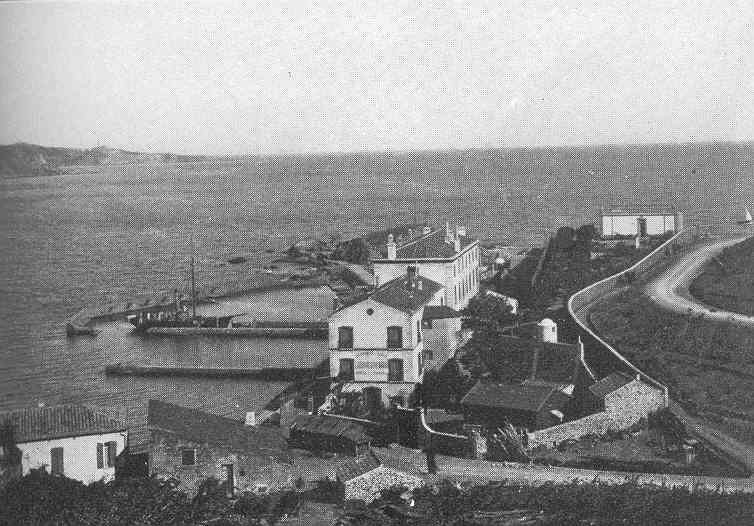 Laboratoire Arago, Banyuls-sur-Mer. General view from the hill above. Subject: Laboratoire Arago (Banyuls-sur-Mer, France), Biological laboratories Tag: Research Institutions